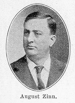 Photographic head shot of a conventionally dressed white male, cleanshaven, looking to the viewer's left; caption reads "August Zinn."